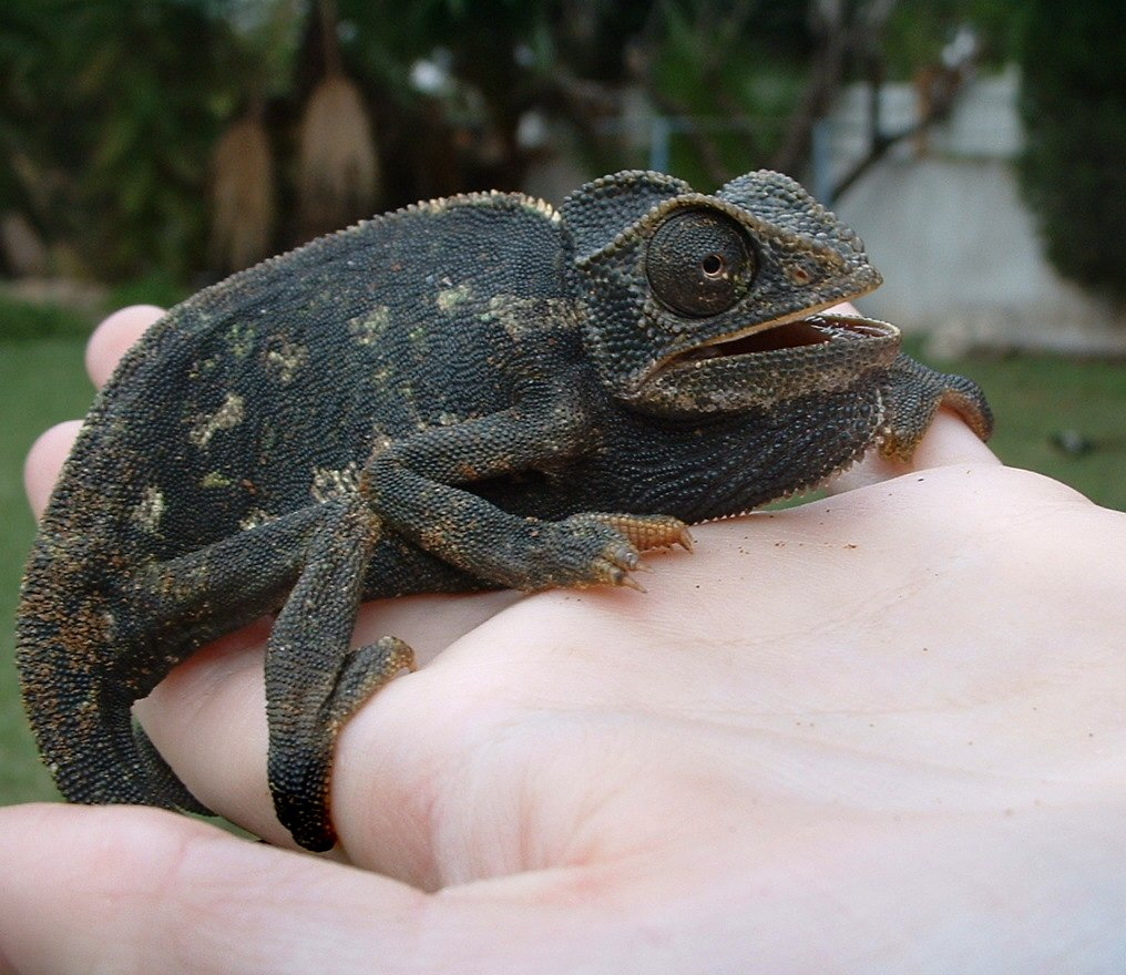 Chamaeleo chamaeleon (common or Mediterranean chameleon) colored black due to fright. The animal is scared because it had just been saved from a dog.